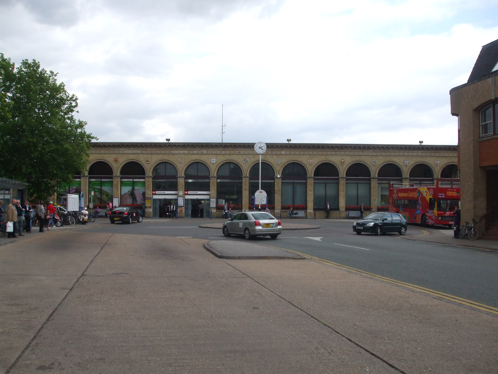 Cambridge station building